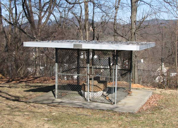 Old Tombstone (Denton Monument) listed on the NRHP in Roanoke County, Virginia